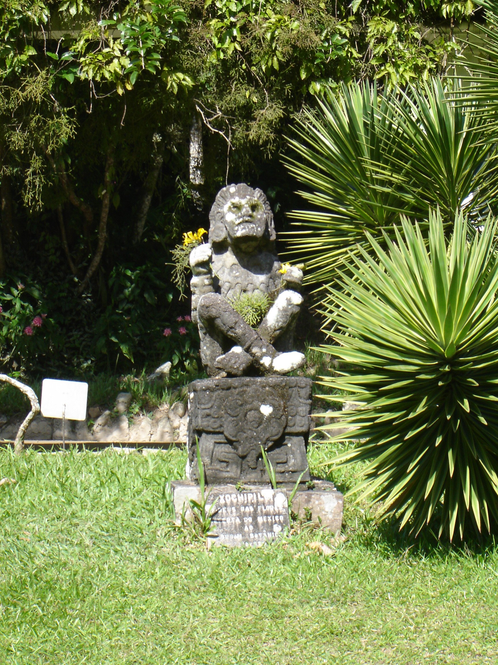 Xochipilli statue donated by the Mexican government to Brazil this in the Botanical Garden of Rio de Janeiro.